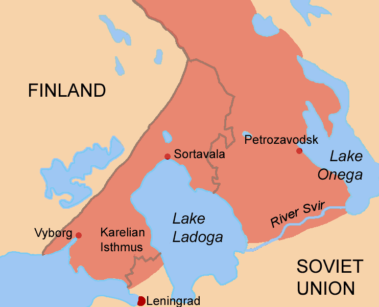 Finnish advance in Karelia during the Continuation War (1941–1944). The gray line marks the border of 1920, until the start of the Winter War (1939–1940).